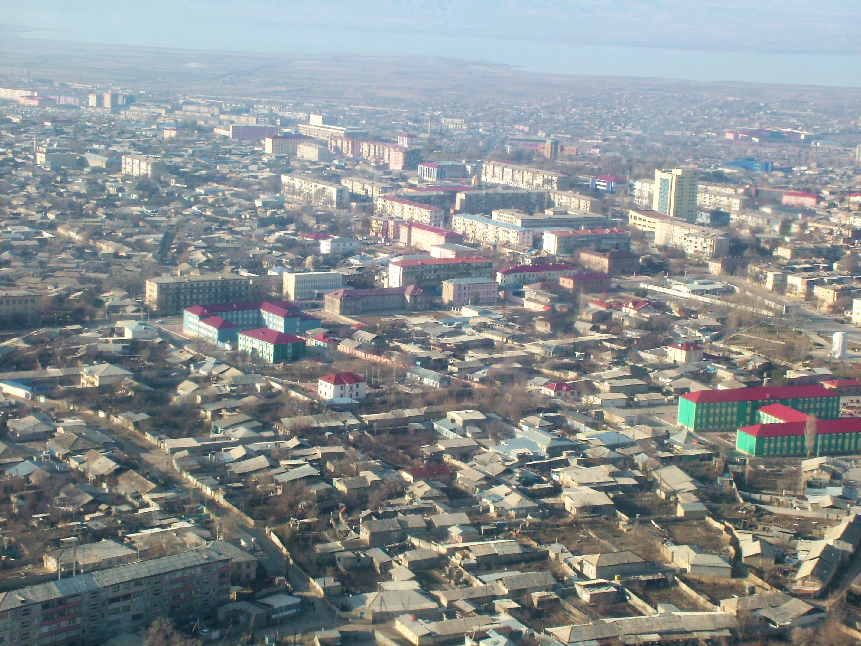 City of Naxcivan view from plane